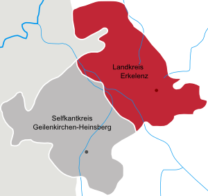 Map of Landkreis Erkelenz